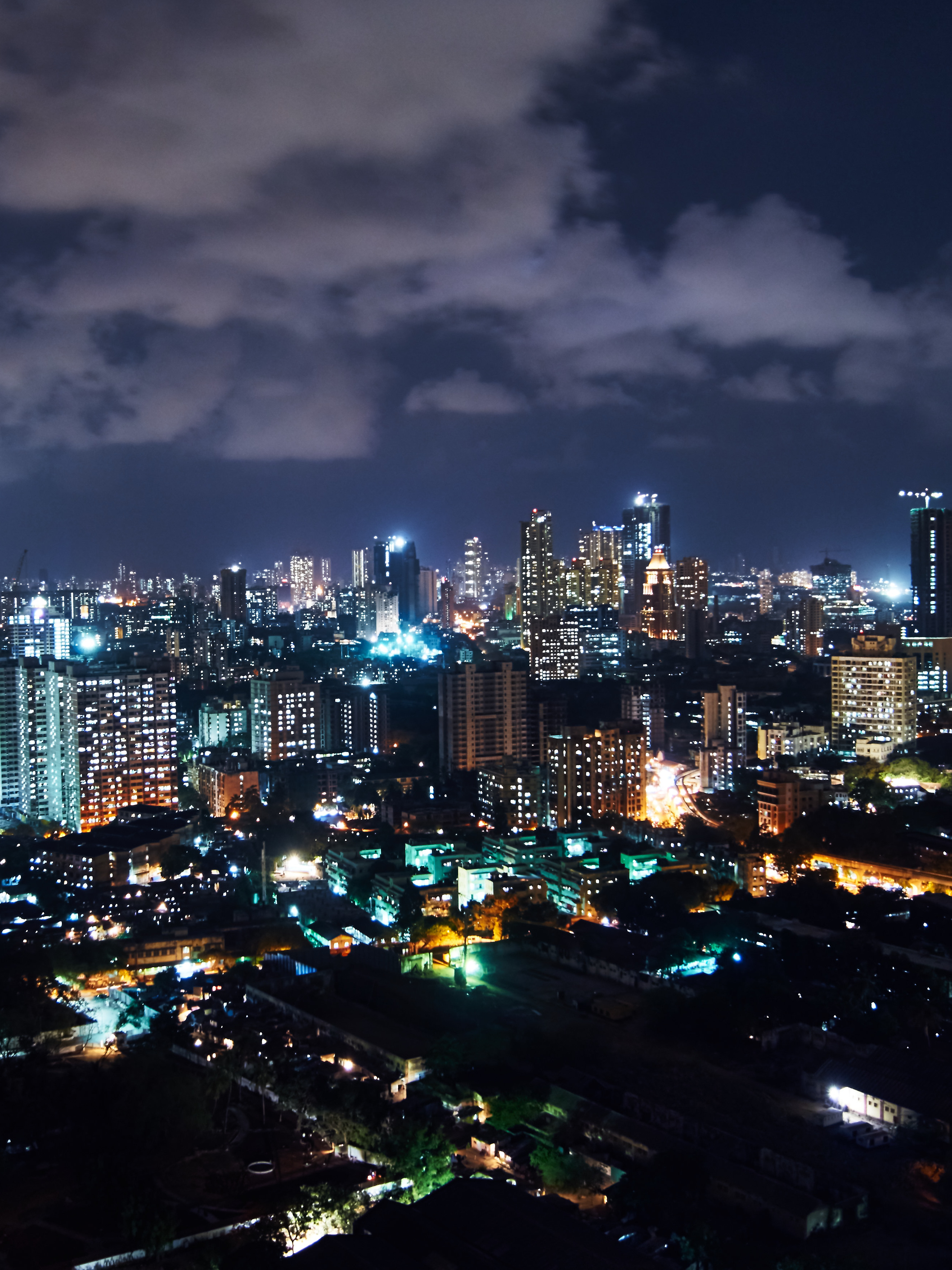 Took this Shot in the South of Mumbai, from the vantage point of the 34th floor